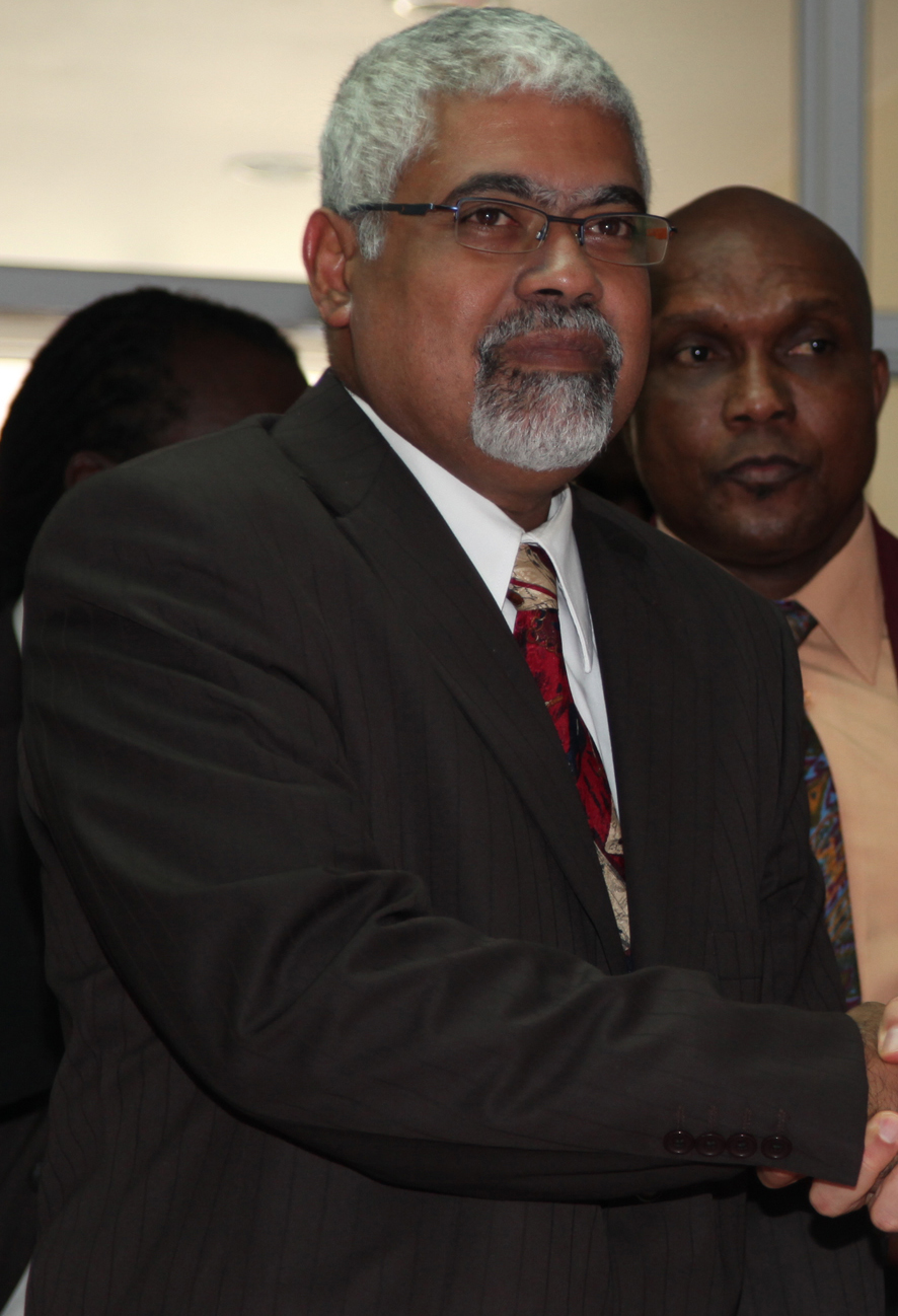 Robert Ameralli, vice president of Suriname, shakes hands with John R. Nay, U.S. Ambassador to Suriname, after a ribbon cutting during the opening ceremony of Continuing Promise 2010 at Elsje Finck Sanichar College in Paramaribo, Suriname, Oct. 29, 2010. The college is being used as a medical site for CP10 personnel to provide aid to Surinamese citizens. Marines and Sailors of CP10 are anchored off the coast of Paramaribo, Suriname to conduct humanitarian operations for 10 days. CP10 is a humanitarian civic assistance mission that provides medical, dental, veterinary, engineering support and disaster relief efforts to the Caribbean, Central and South America.